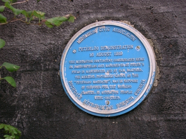 Plaque marking the spot where the Middleton contingent, led by Samuel Bamford, congregated before marching to St Peter's Field on the day of the Peterloo Massacre.